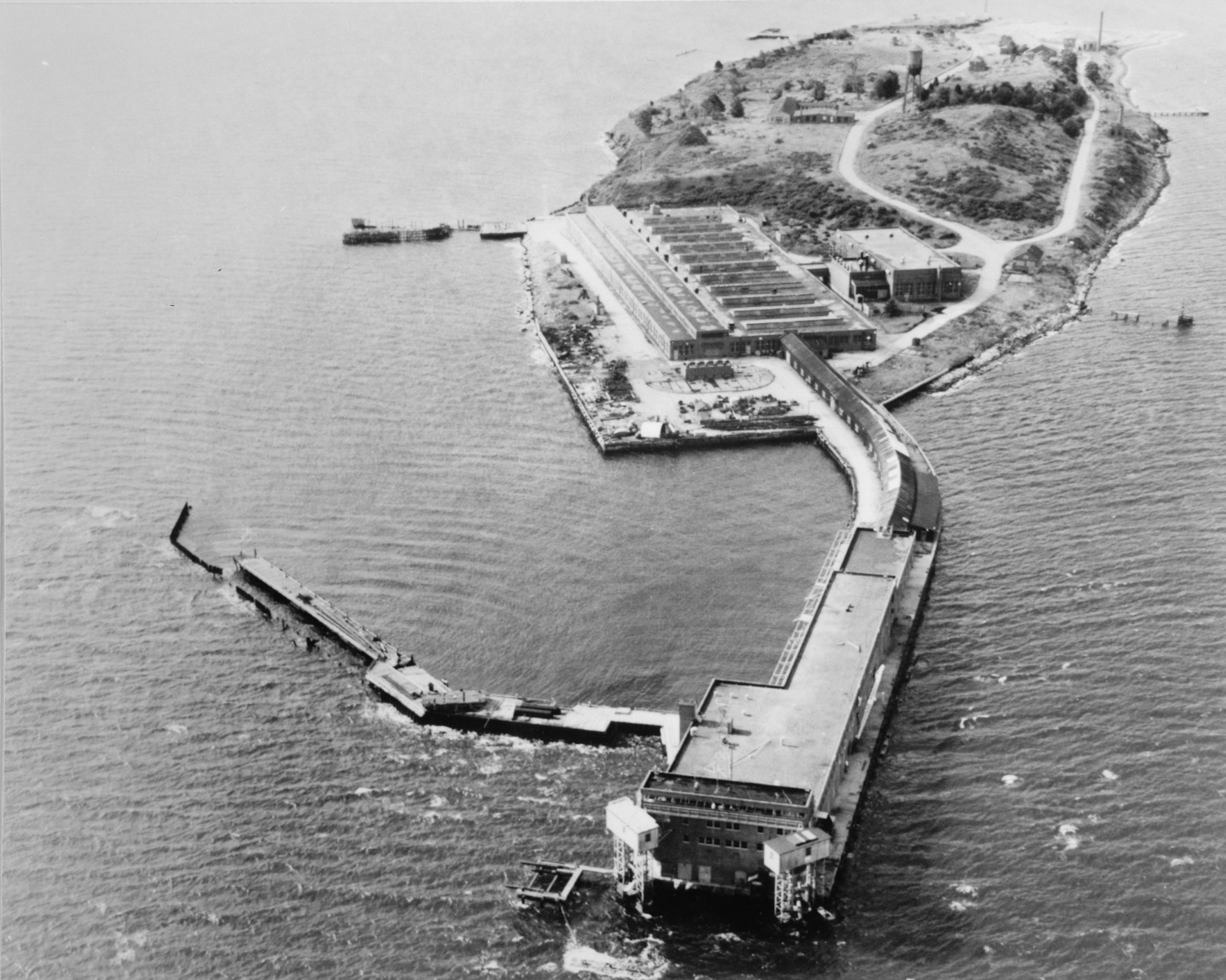 Aerial photograph looking south across Gould Island. Firing Pier (Still Possessing Third and Fourth Levels) In Foreground. Pitched Roof Extending From South End of Firing Pier Marks Location of Frame Approach Between Pier and Shop Building (Center Rear) and Power Plant (To Right of Shop). Photo from Naval Undersea Warfare Center, Division Newport, Rhode Island. - Naval Torpedo Station, Firing Pier, North End of Gould Island In Narragansett Bay, Newport, Newport County, Rhone Island. (